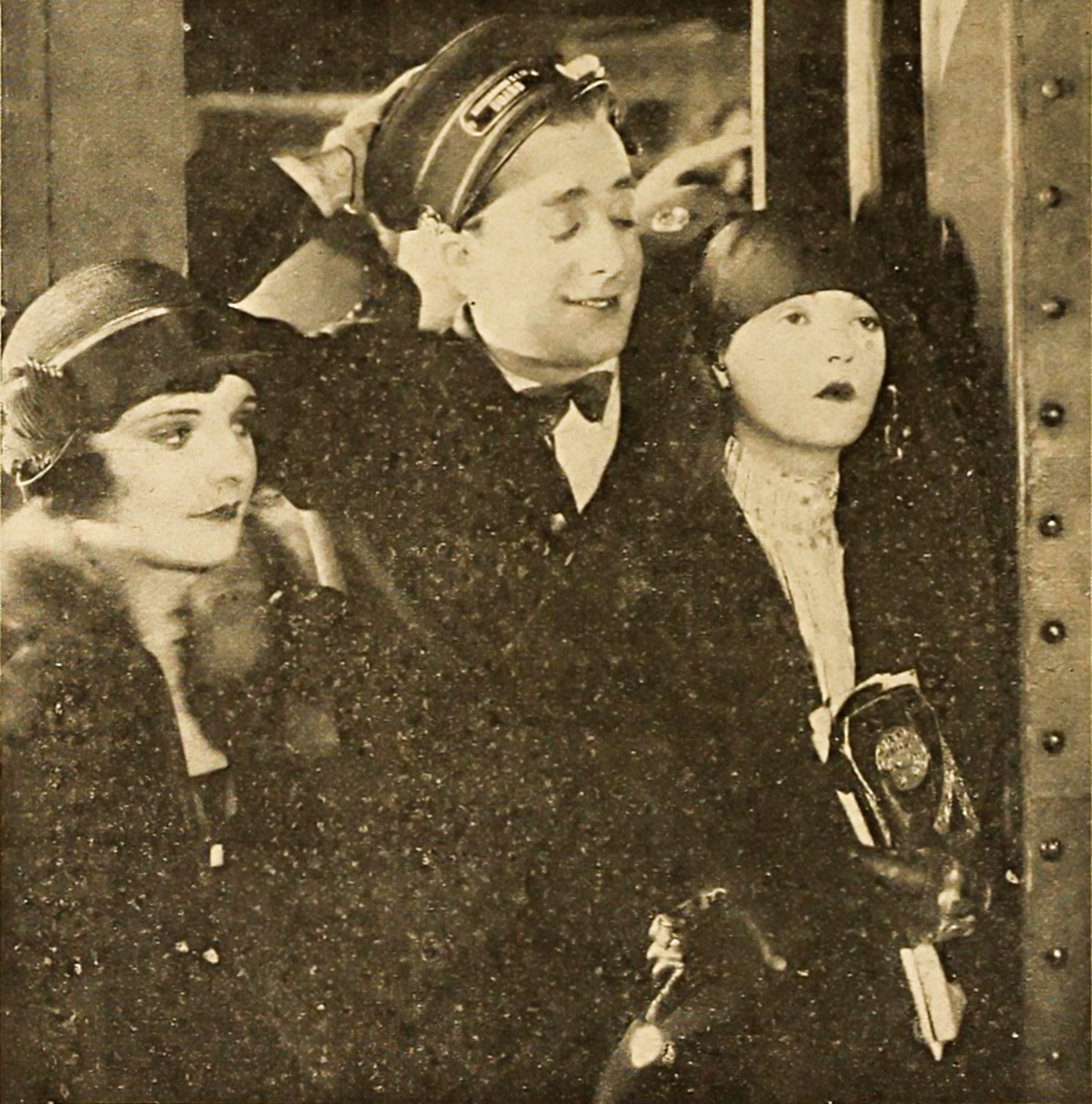 A scene from Subway Sadie, published in the magazine Picture-Play, which features Jack Mulhall and Dorothy Mackaill.